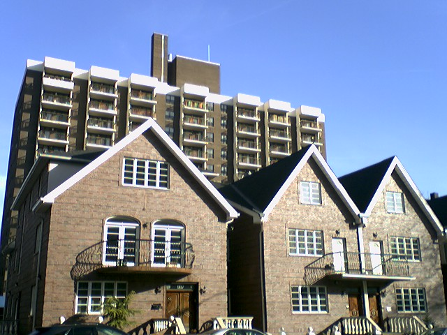 Newly built private residential houses in Midwood.